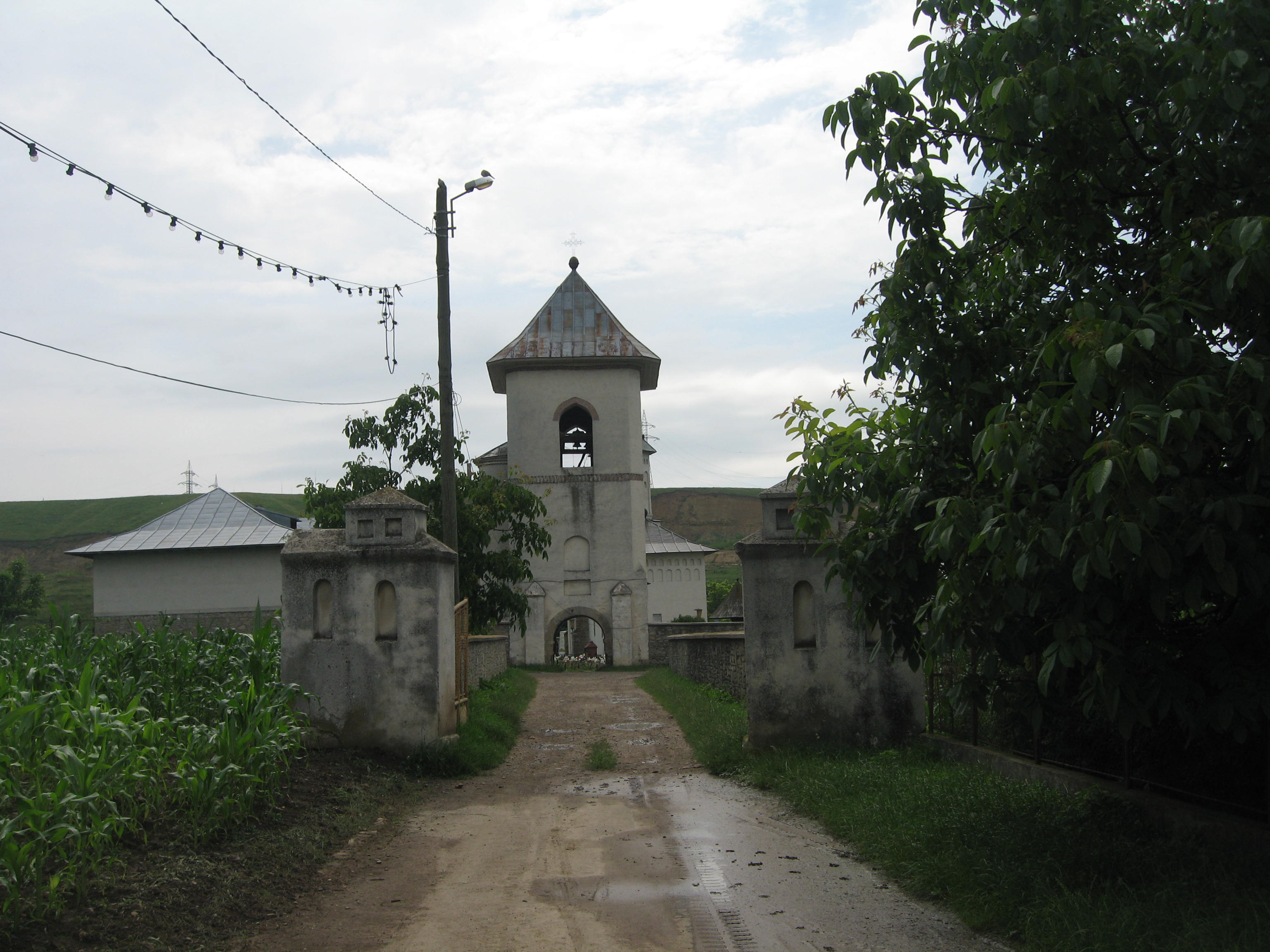 Teodoreni Monastery in Burdujeni, Suceava - the bell tower and the entrance.